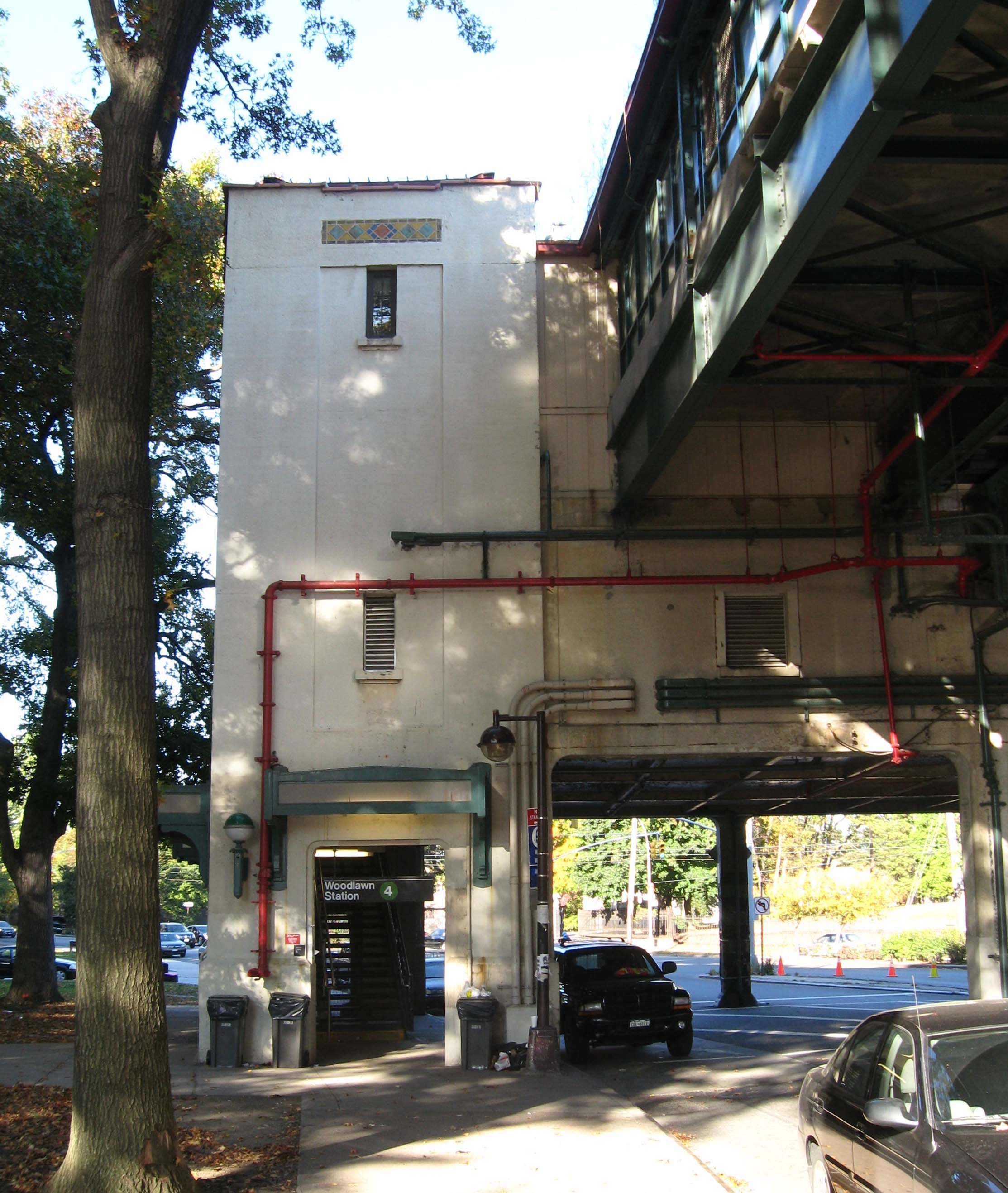 Looking north at northwestern stair of Woodlawn (IRT Jerome Avenue Line) on a sunny early afternoon.